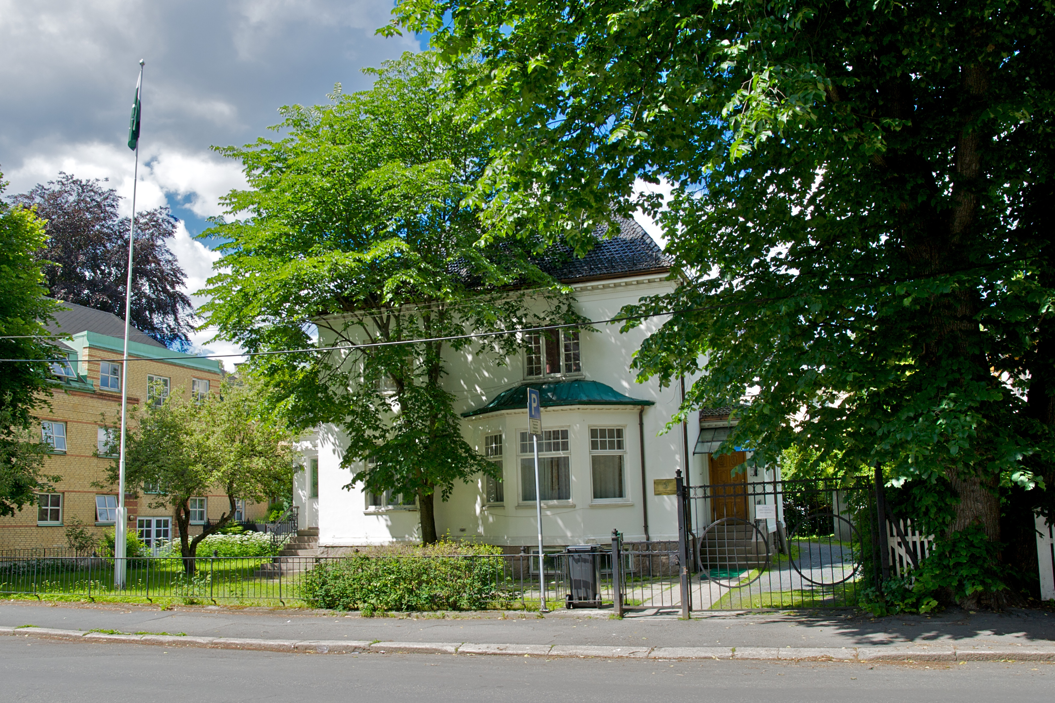 Pakistani Embassy, Oslo, Norway.